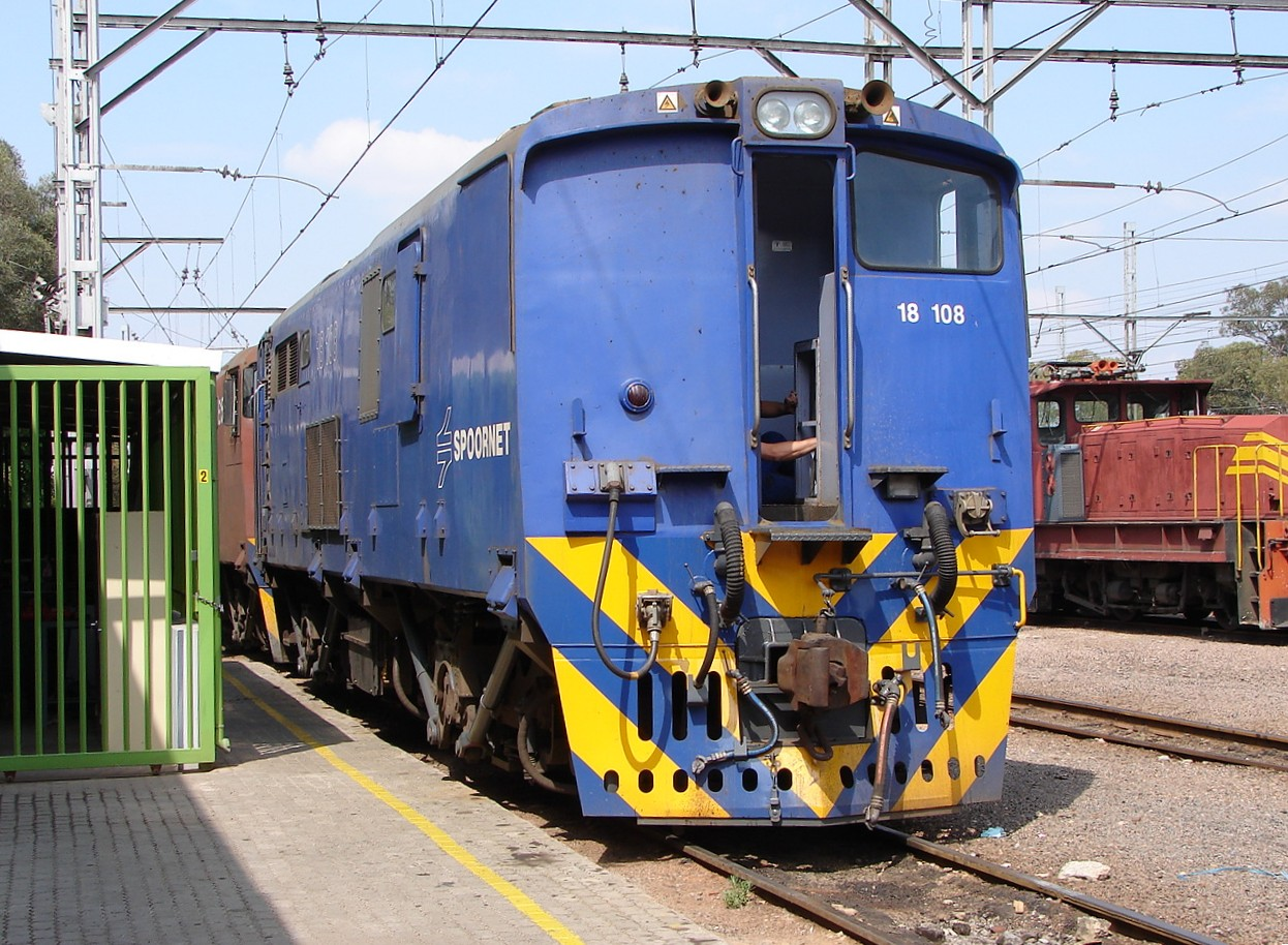 Spoornet Class 18E Series 1 18-108 Location: Capital Park, Pretoria, Gauteng History: Rebuilt in 2004 from Class 6E1 Series 10 E2114